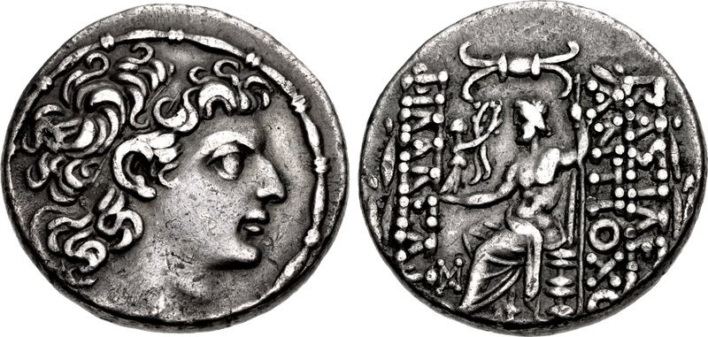 SELEUKID EMPIRE. Antiochos XIII Philadelphos (Asiatikos). 69/8-67 & 65/4 BC. AR Tetradrachm (26.5mm, 14.79 g, 12h). Antioch on the Orontes mint. Diademed head right within fillet border / BAΣIΛE[ΩΣ] ANTIOXO[V] ΦΙΛΑΔΕΛΦ[ΟV], Zeus Nikephoros seated left; MA monogram to inner left; all within laurel wreath. SC 2487a; SMA 460; HGC 9, 1340. VF, toned, some porosity, slightly off center. Very rare, only two in CoinArchives. From the MNL Collection. Ex François Charrin Collection (Parsy, 26 November 2013), lot 114; Kricheldorf XXXIV (24 January 1980), lot 220; Walter Niggeler Collection (Part 1, Leu & Münzen und Medaillen AG, 3 December 1965), lot 479; Hess-Leu [9] (2 April 1958), lot 253.